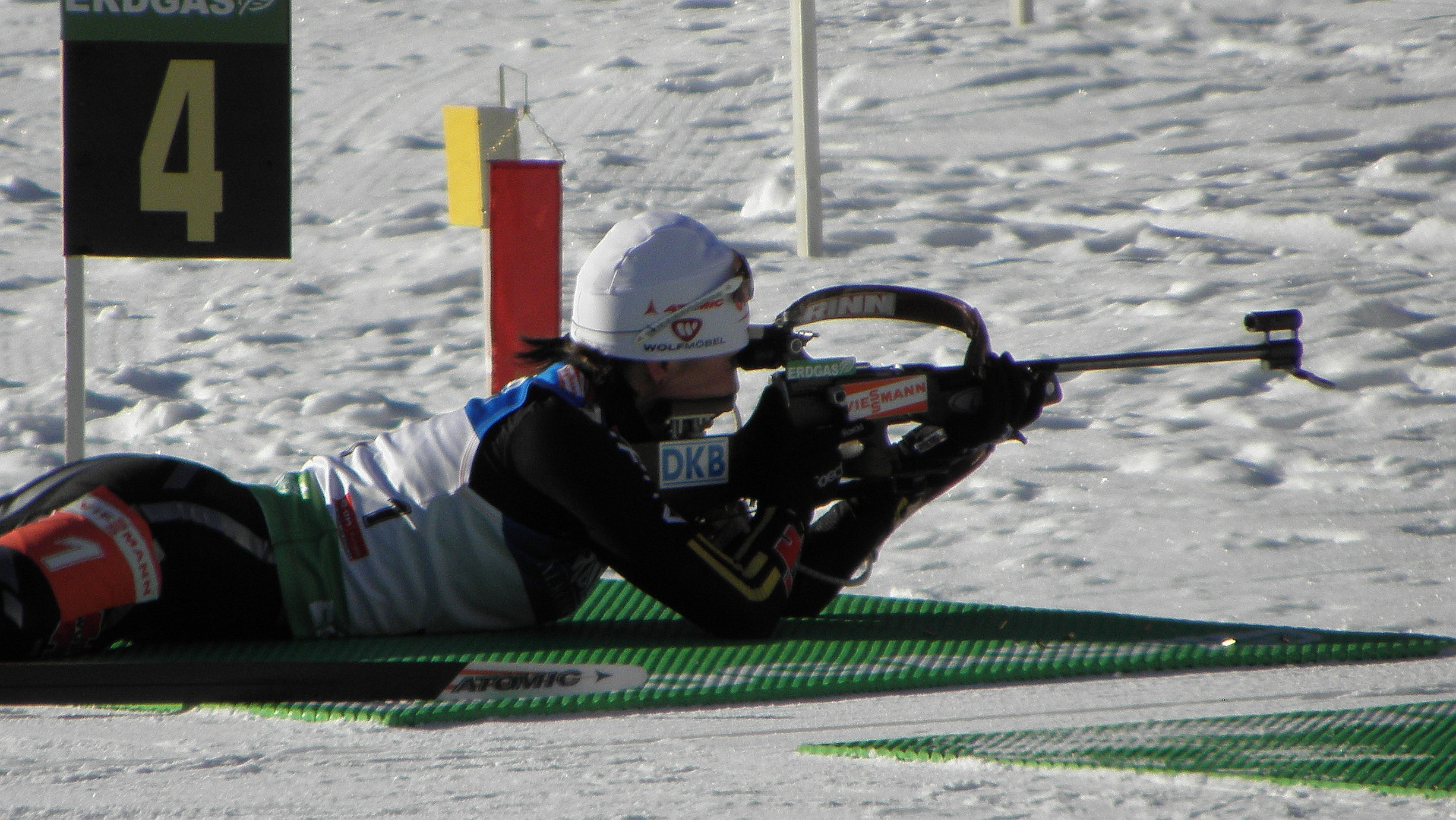 Andrea Henkel in Antholz, 20-01-2010